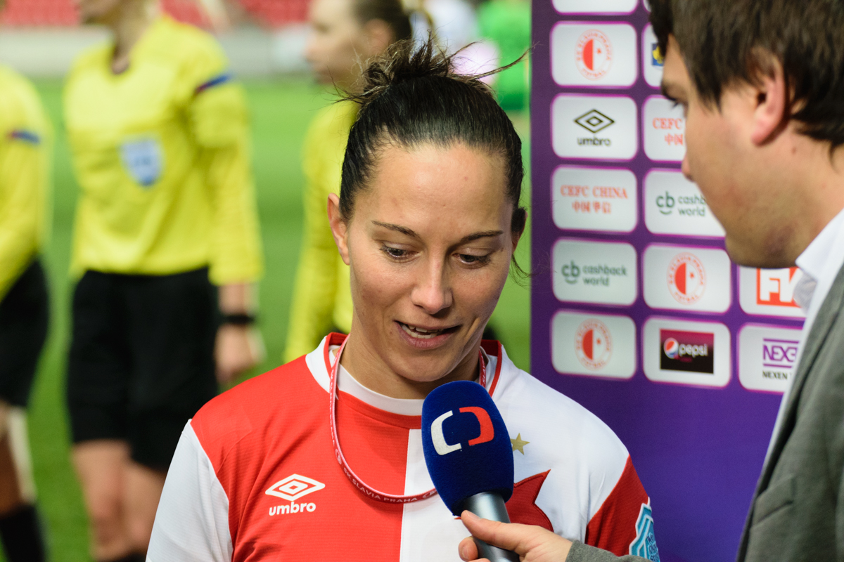 Petra Divišová talking to the media after Slavia vs VfL Wolfsburg